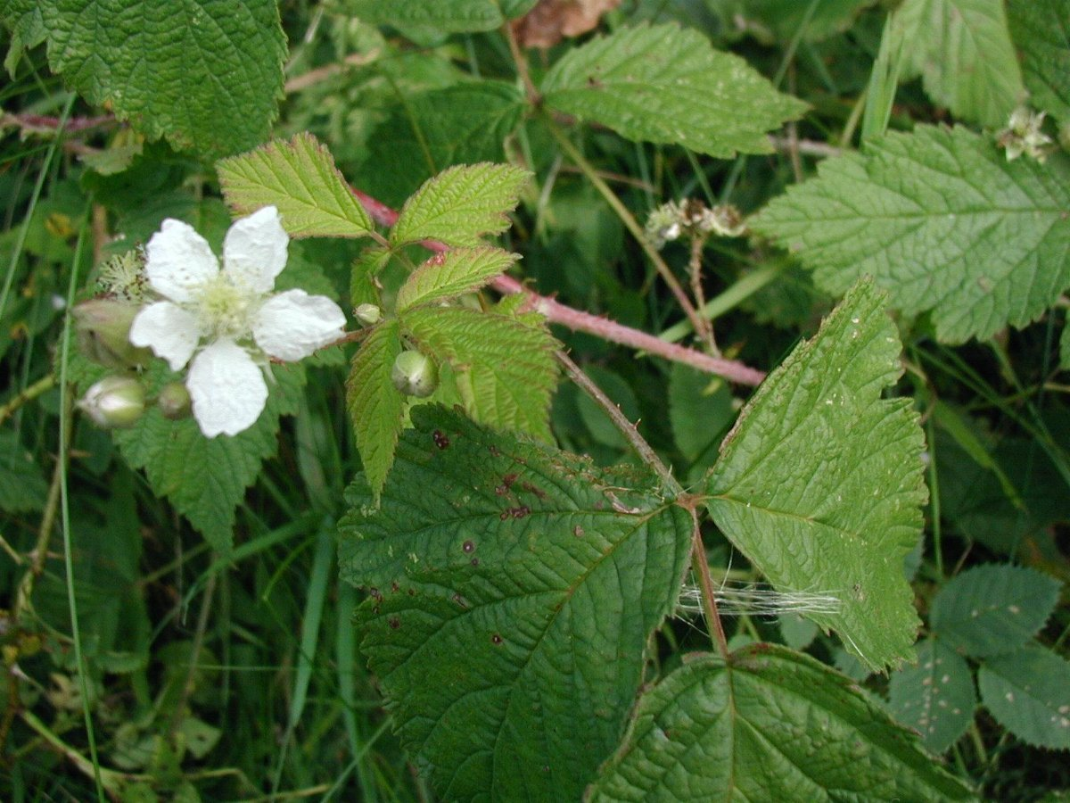 Description: Rubus caesius flower, leaves, and shoot. Source: Own photo, taken in Jutland, Aug 2001. Author: Sten Porse Removed watermark read: Sten Porse 08-2001